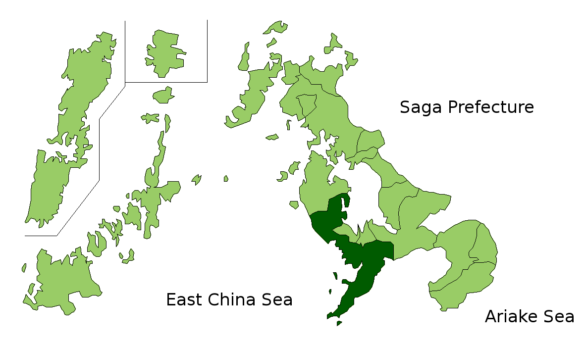 The location of Nasasaki in Nagasaki Prefectuur, Japan